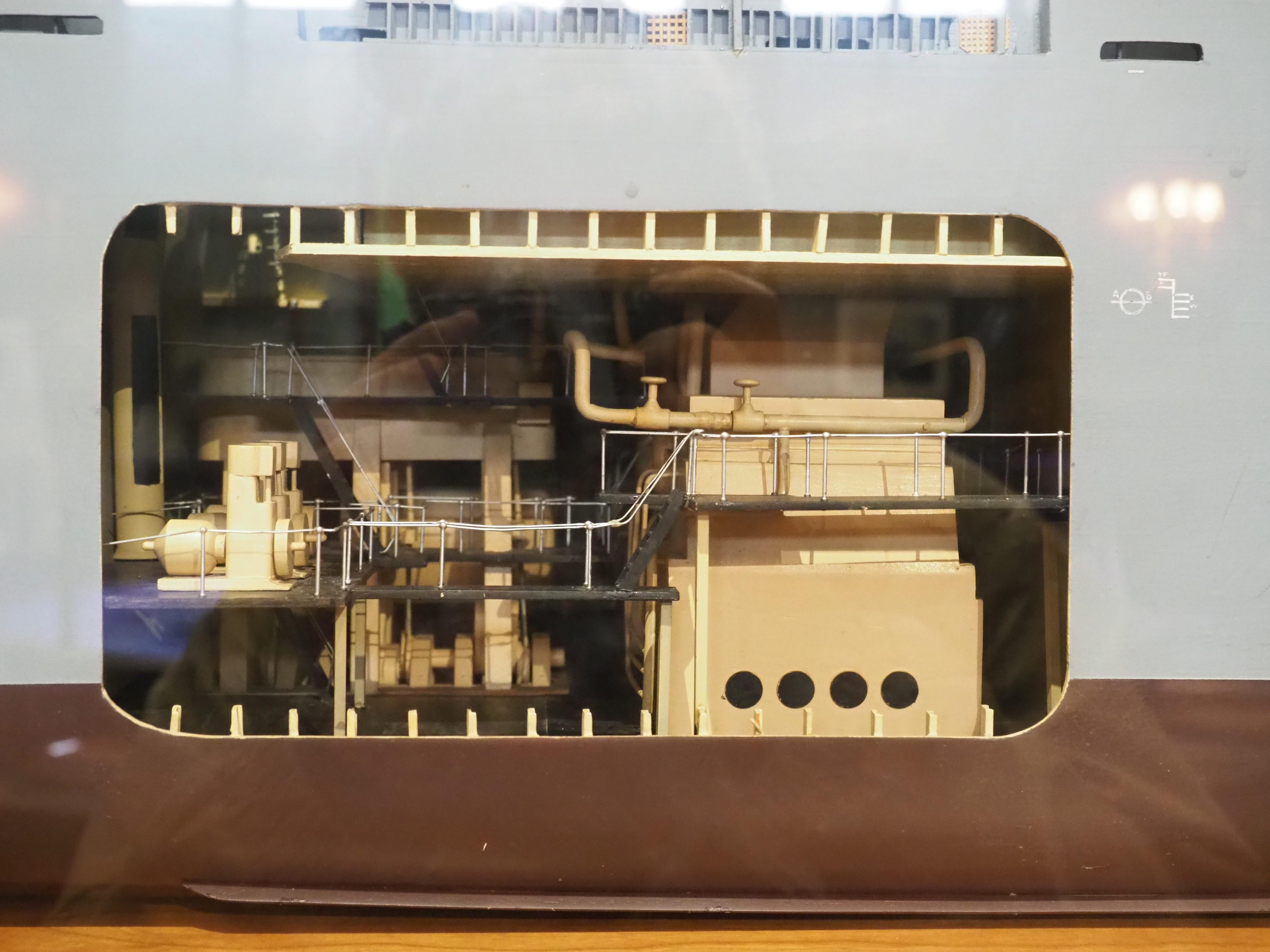 Model of Liberty Ship (detail of engine room), at the King's Point Merchant Marine Museum